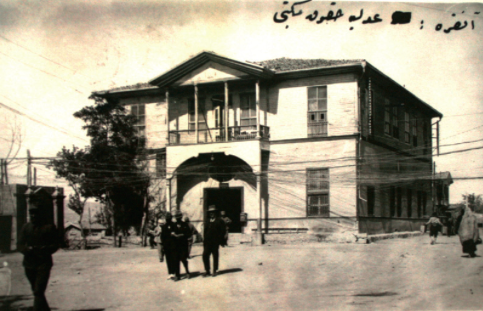 Telegraph Building